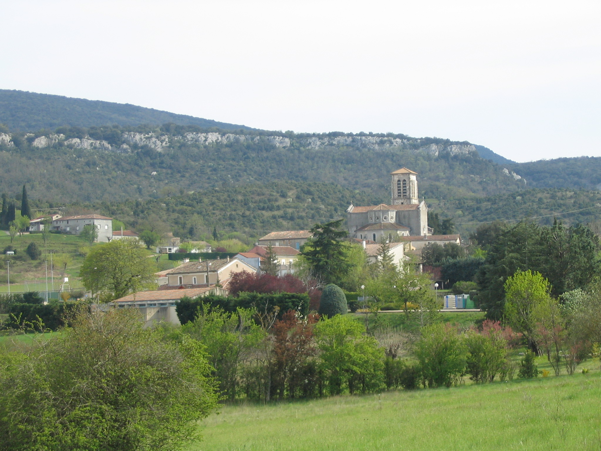 Grospierres in the Chassezac valley, Ardèche region, France